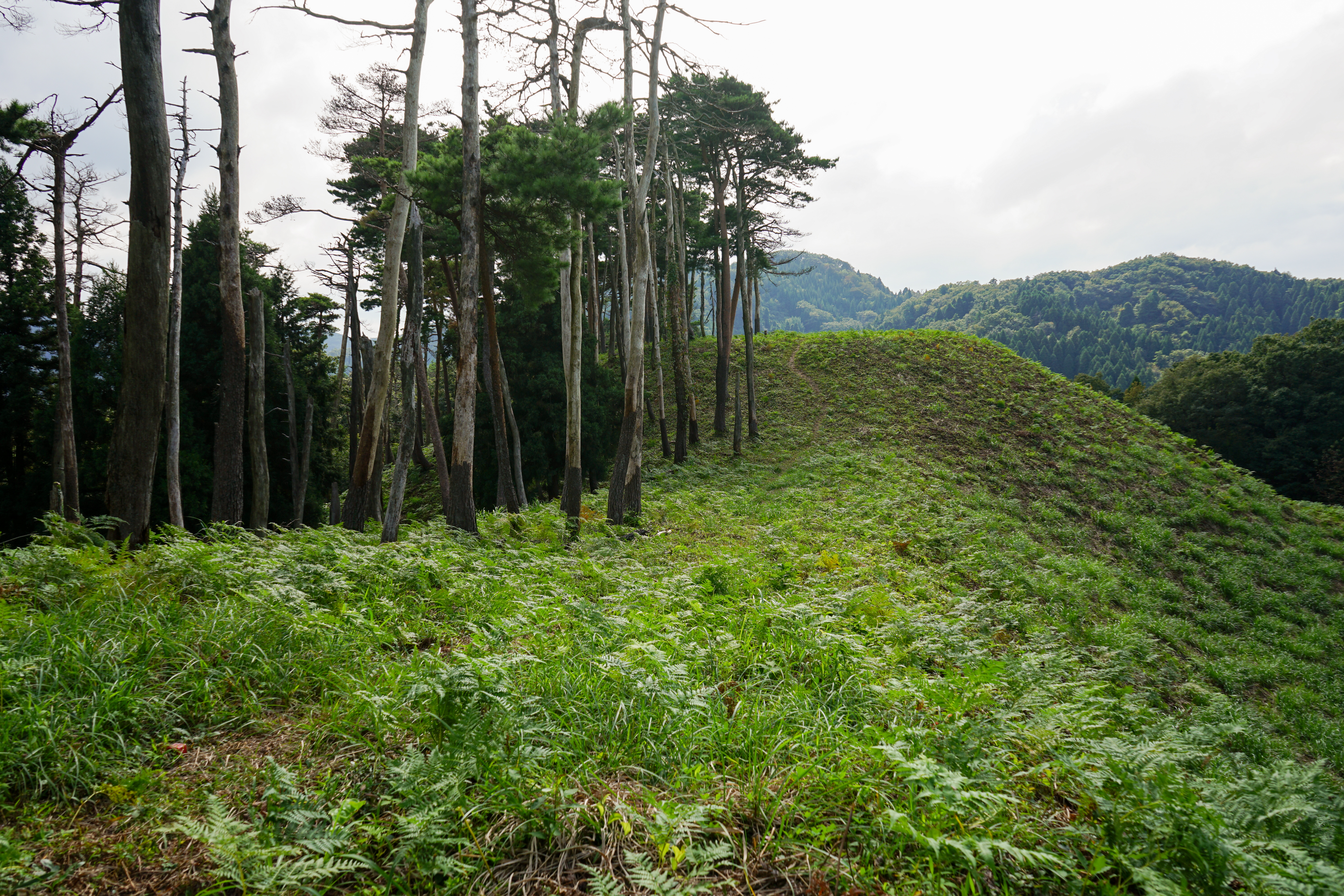 Tegurigajoyama Kofun, Eiheiji-cho, Fukui Pref., Japan